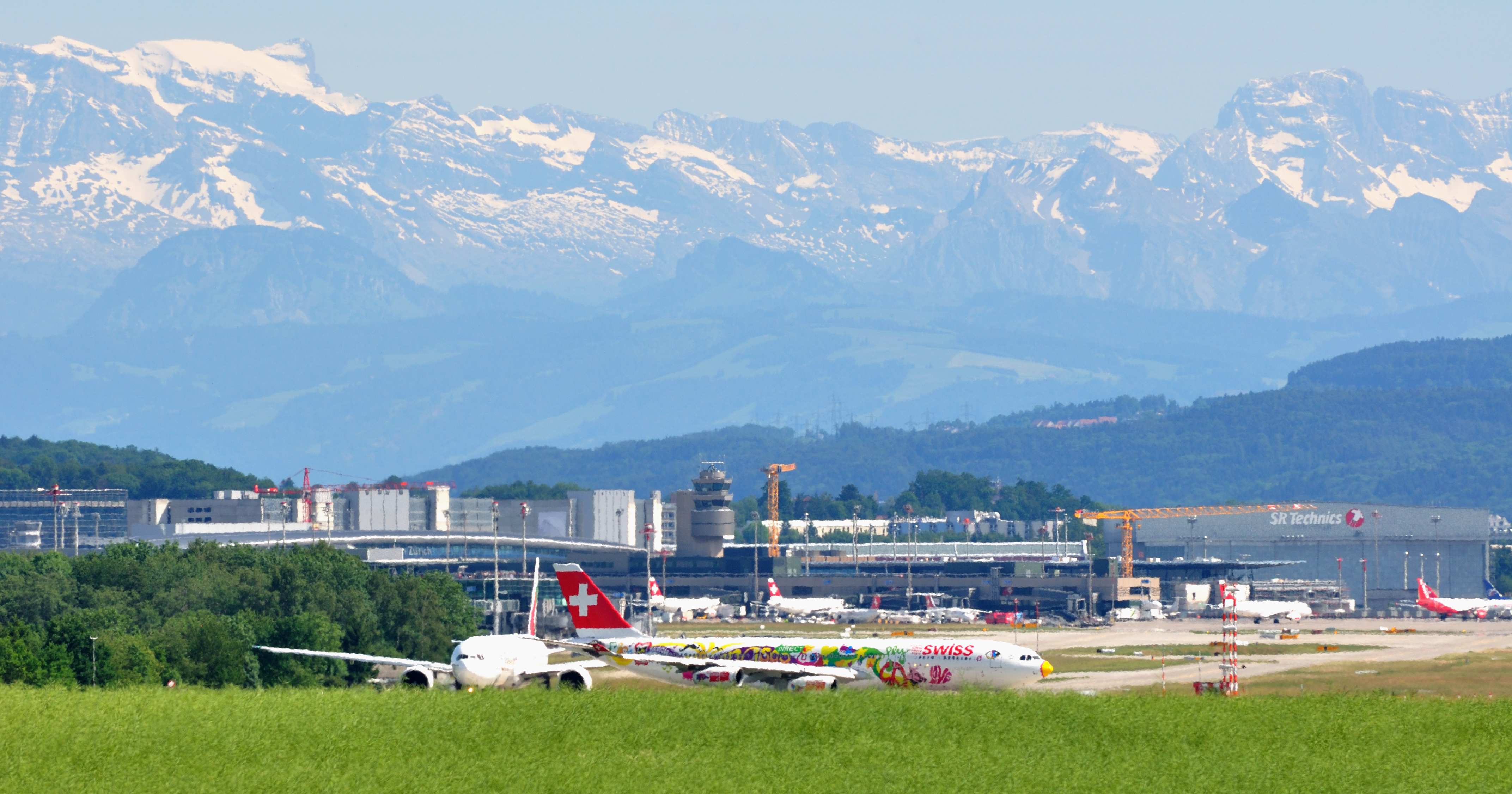 Switzerland, Canton of Zürich, Swiss Airbus A340 HB-JMJ is lining up for take-off from runway 16 on a very clear day at Zurich International Airport.